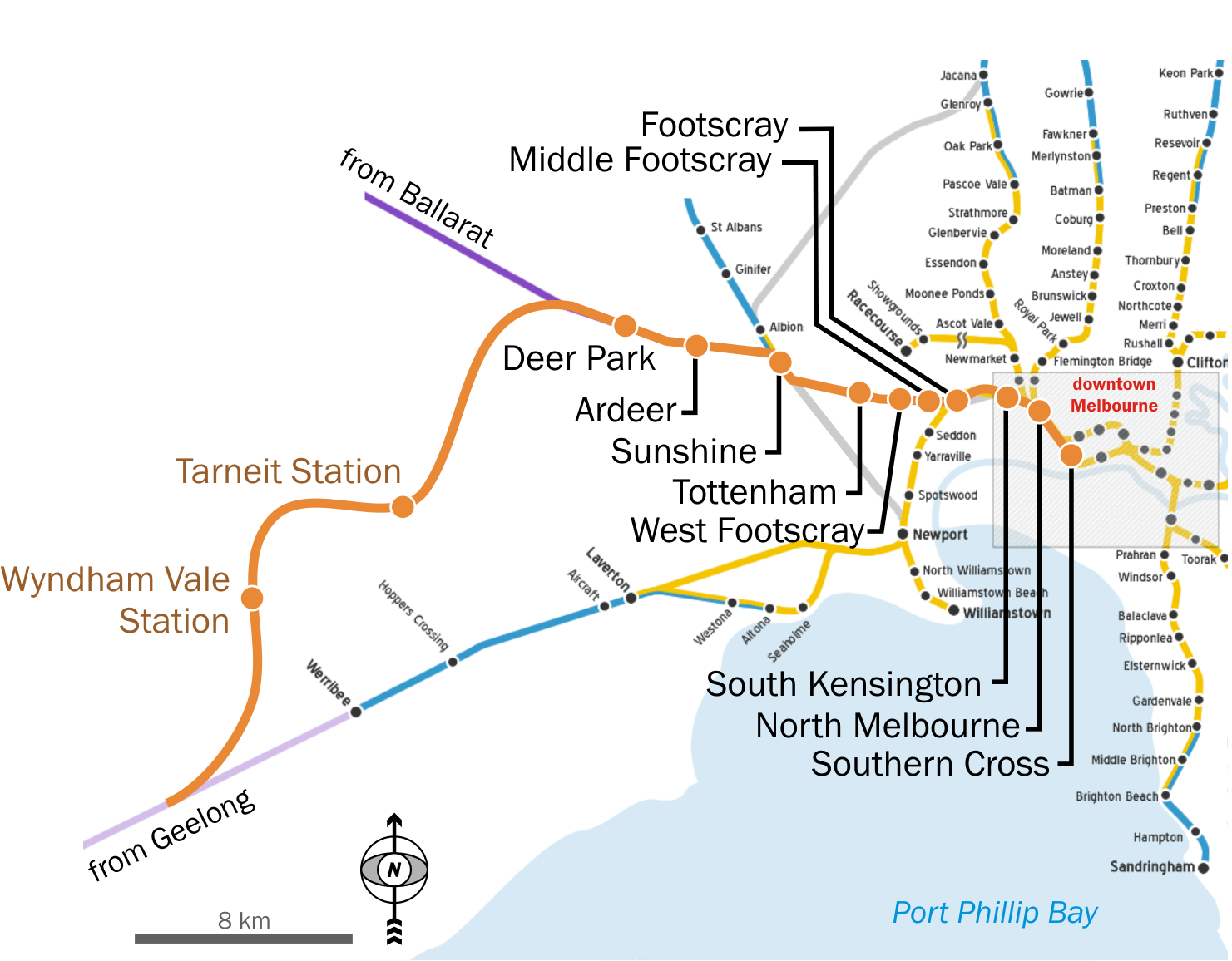 Map of Melbourne's railway network, geographically accurate, with the projected Regional Rail Link.